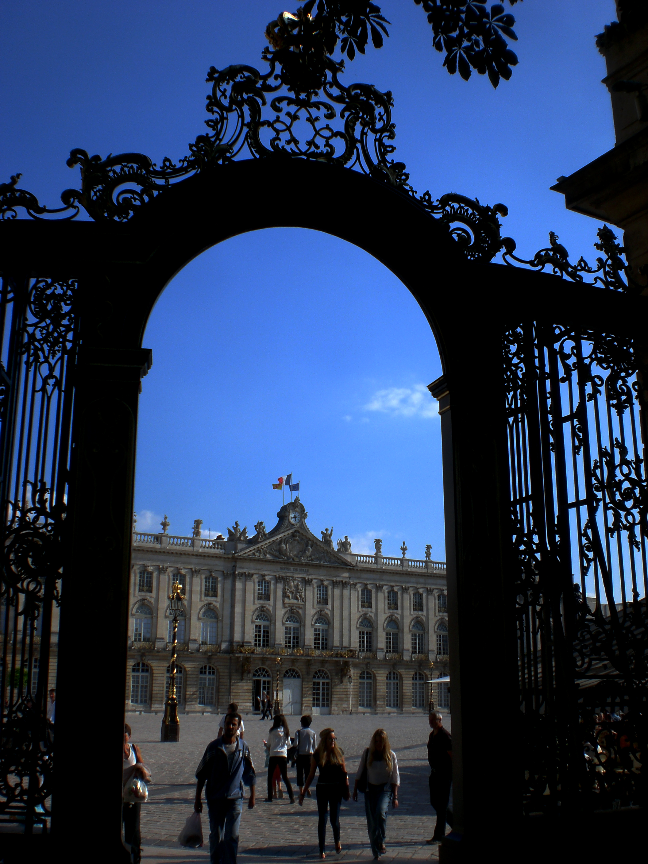 Nancy, Place Stanislas